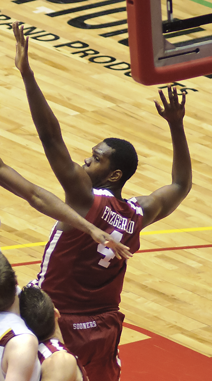 Melvin Ejim and Andrew Fitzgerald